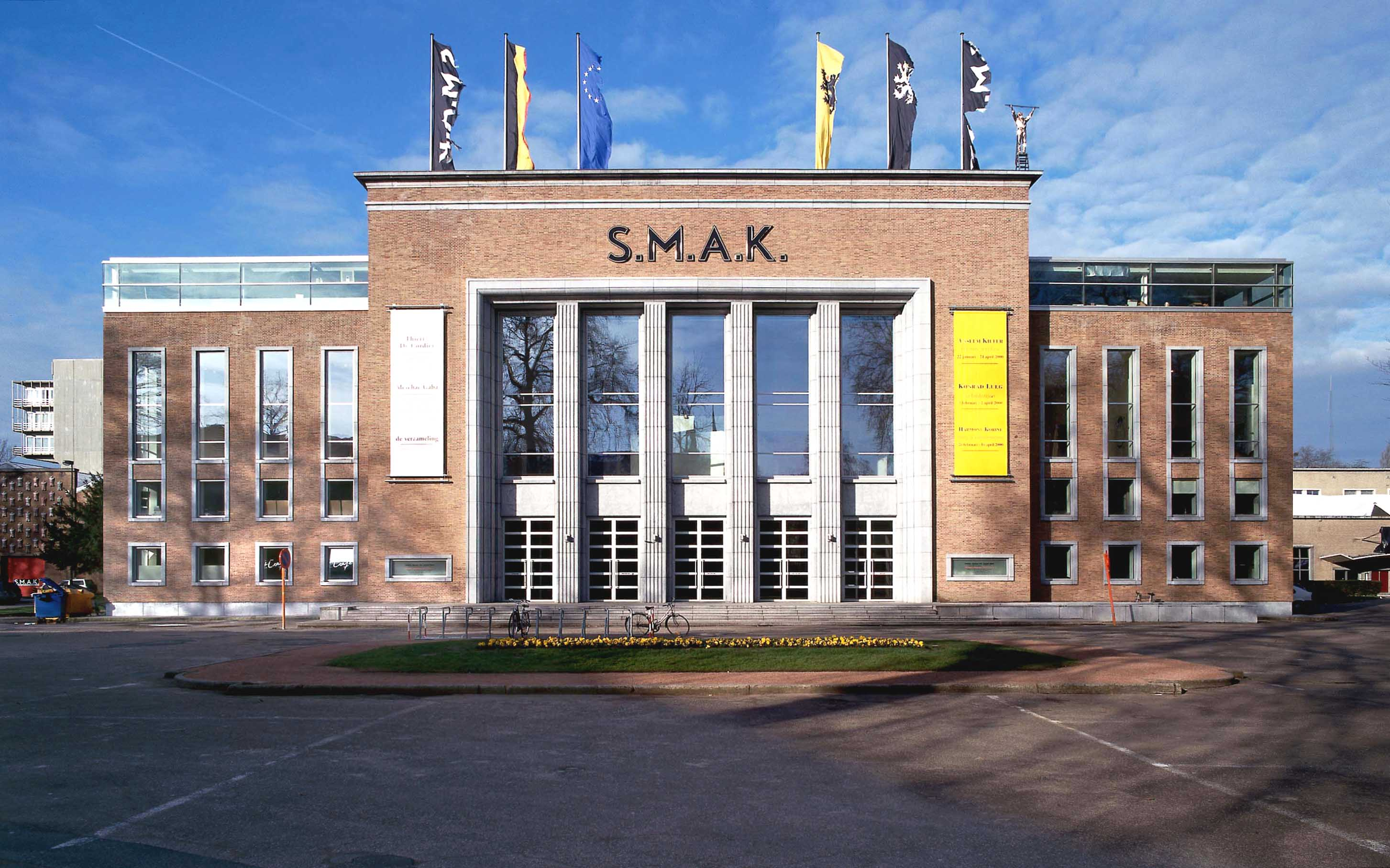 Façade of the SMAK (City Museum for Contemporary Art) museum in Gent